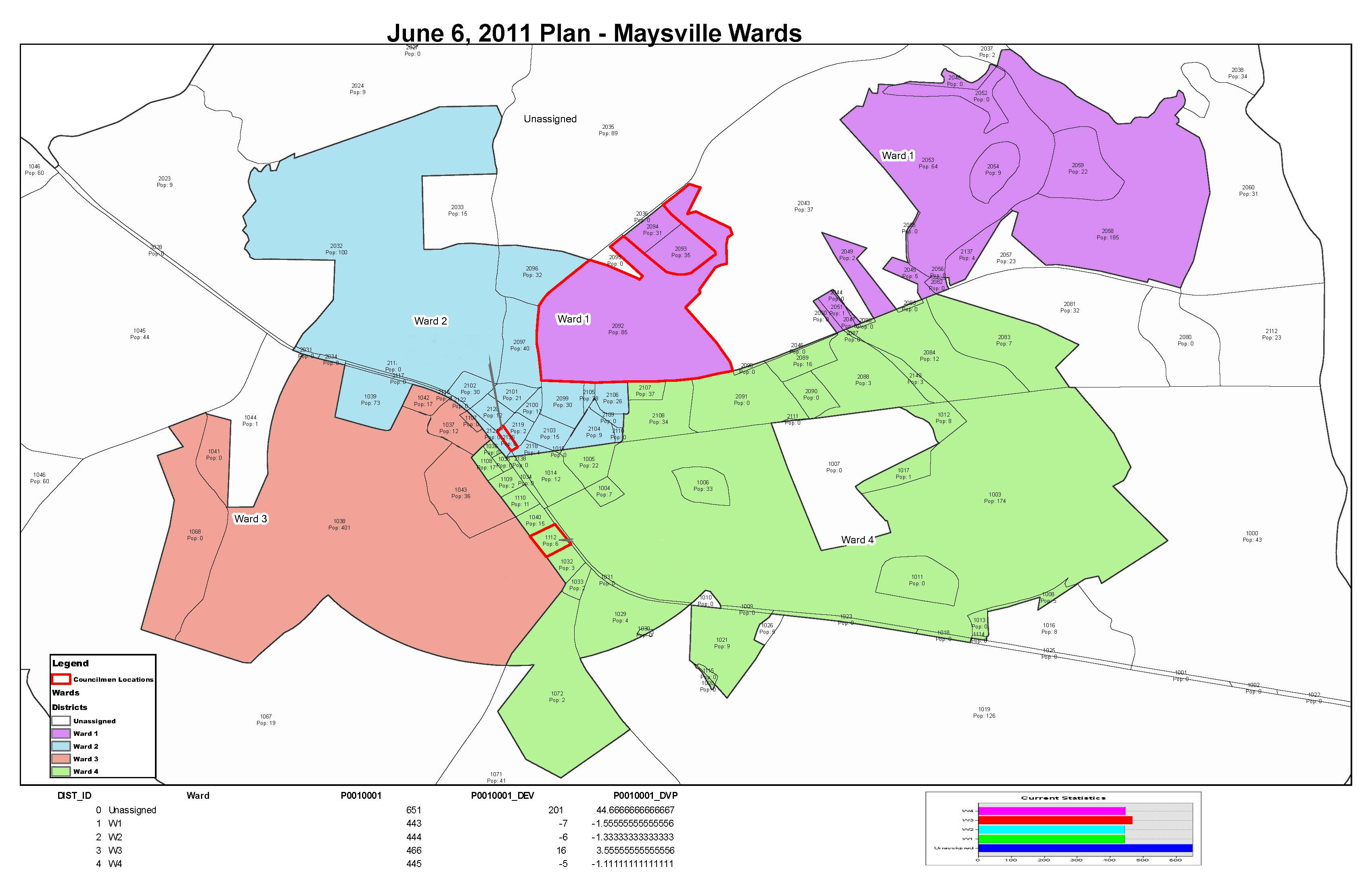 Map depicting each ward in Maysville.